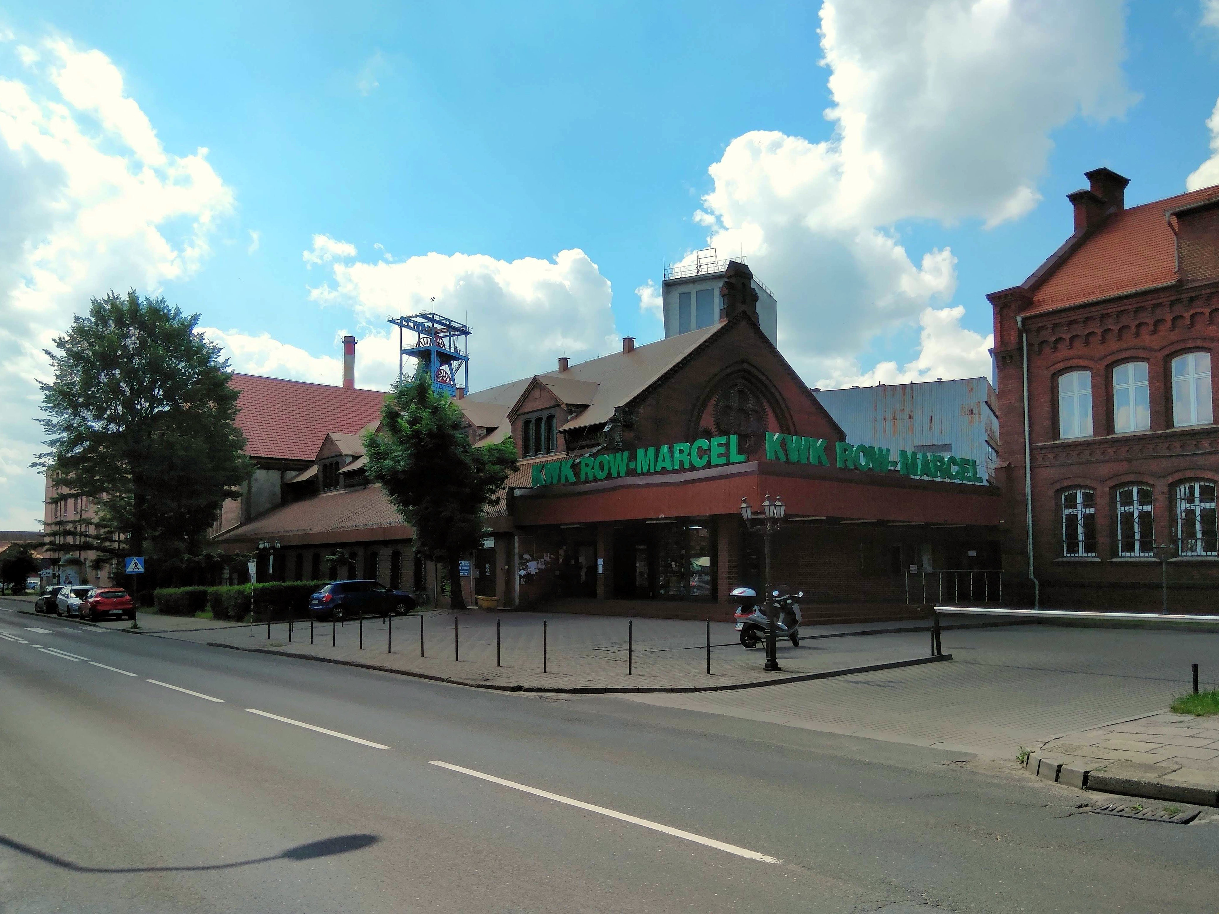 Marcel Coal Mine in Radlin, Upper Silesia, Poland. Main entrance.